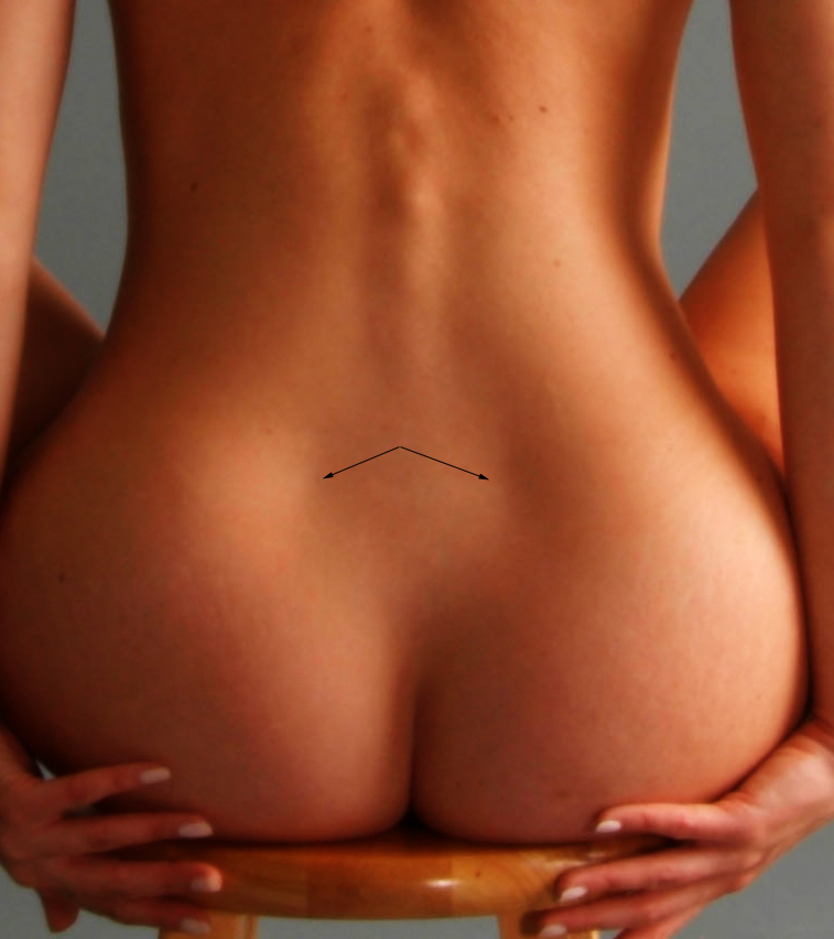 Back view of a sitting female with the dimples of Venus visible. Two arrows are pointing out both dimples.